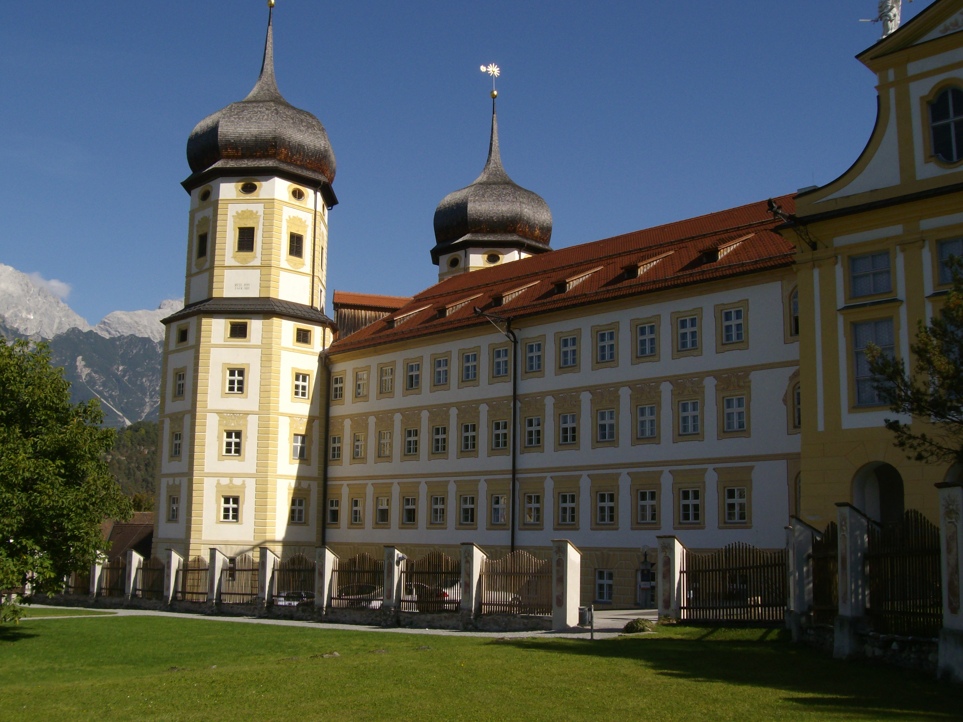 Stift Stams, abbatial palace, it's a college for teachers now.